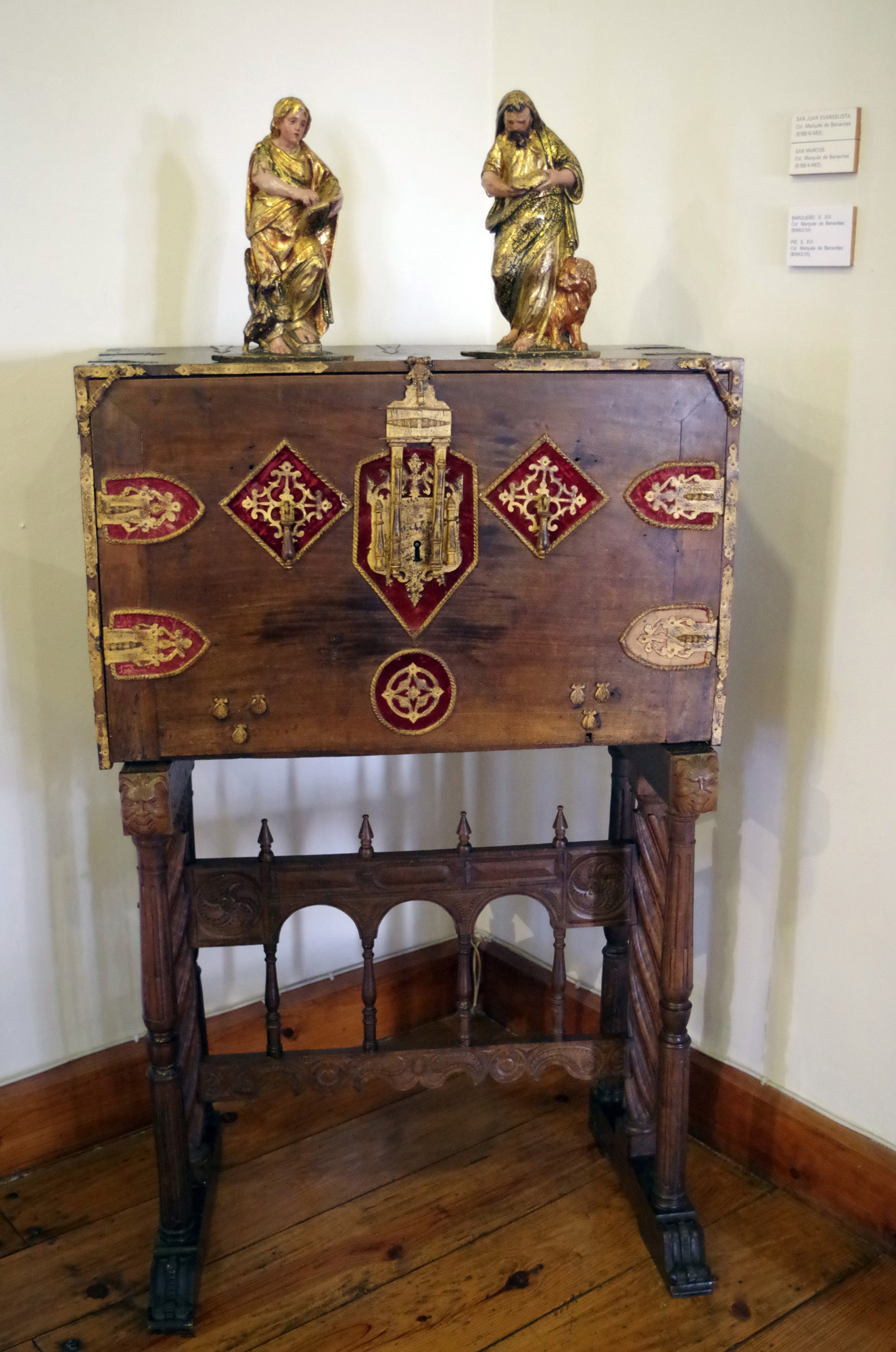 16th Century Bargueño desk with Saint John and Saint Mark the Evangelists on it in Ávila Museum (Casa de los Deanes building) (Ávila, Spain).